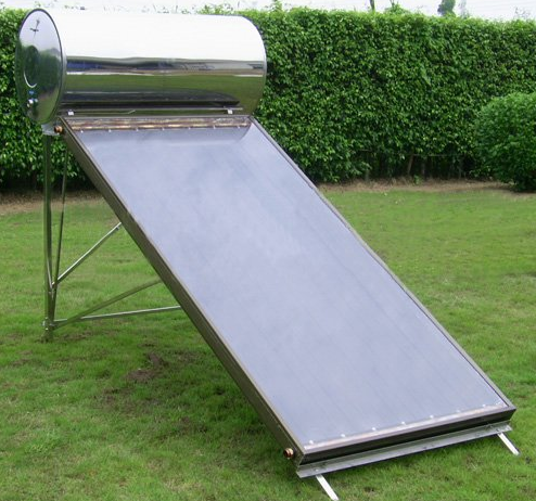 Photothermic modules (or solar heat flat plate collectors) are increasingly used in the world to struggle against green house gas emissions.